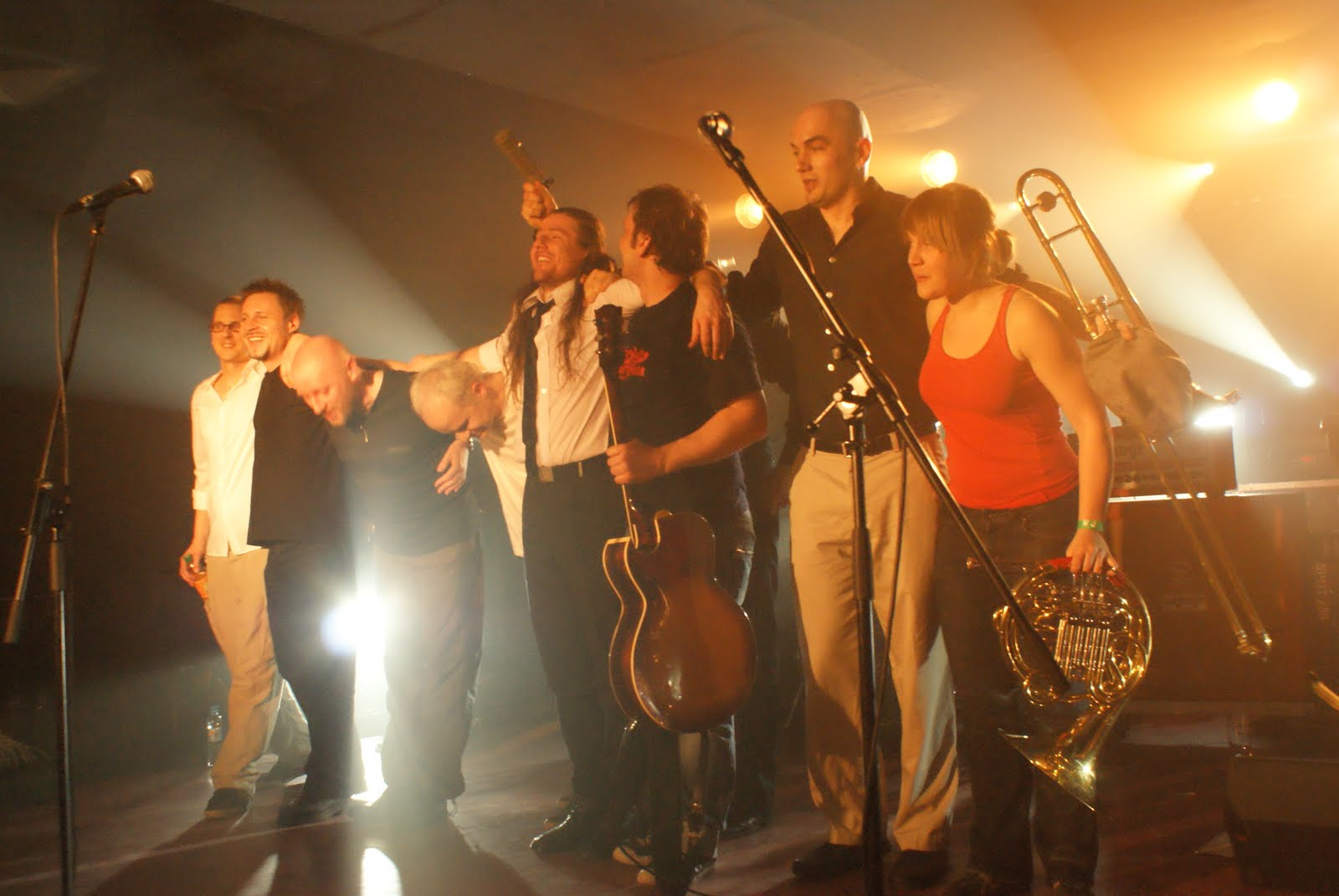 Buldog band.